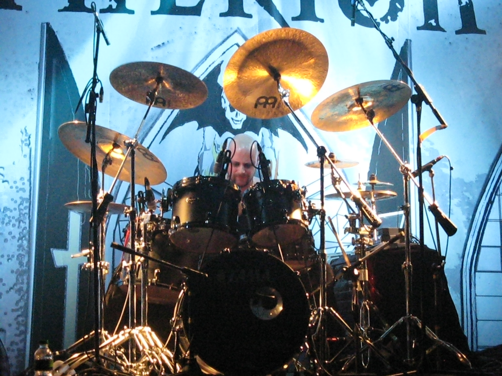 Therion